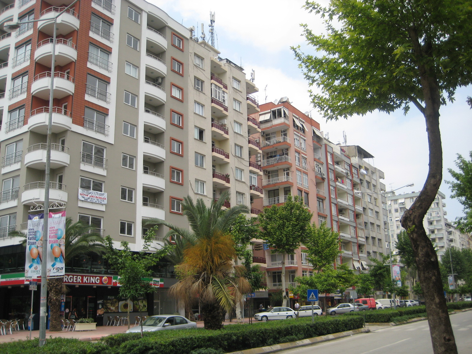 Ziyapaşa Caddesi in Adana. (Using only basic Latin characters in filename, not the "ş")